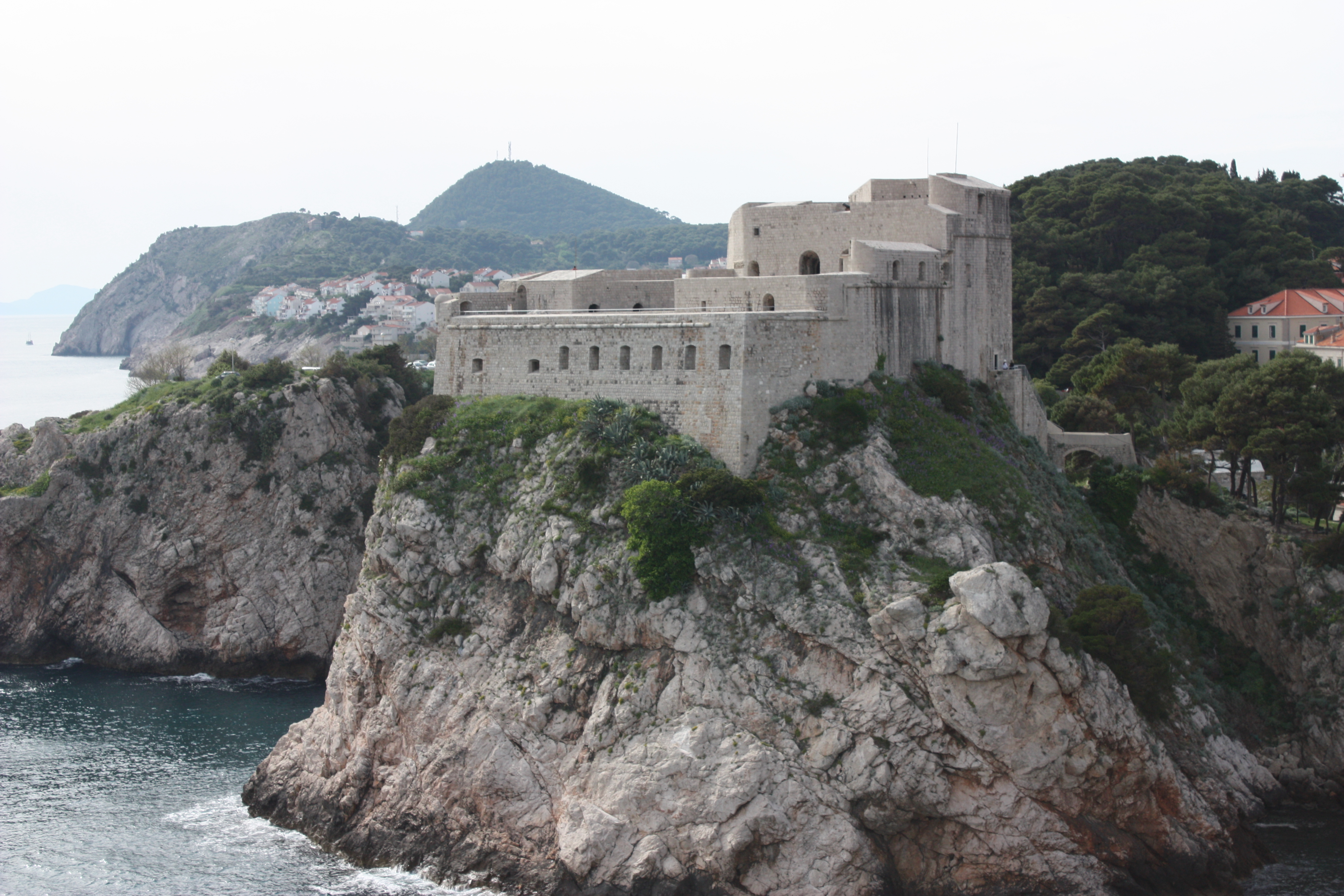 Fortress Lovrijenac in Dubrovnik